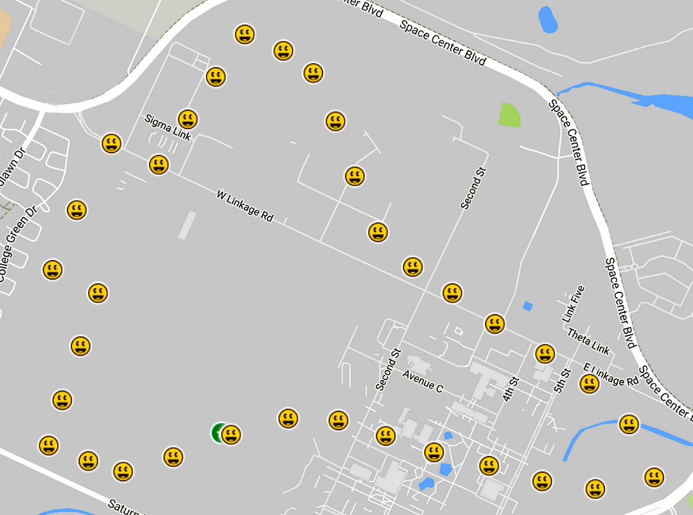 A group of geocaches can be placed to form a picture. This collection forms the outline of a Shuttle Spacecraft and lies over the Johnson Space Center in Houston